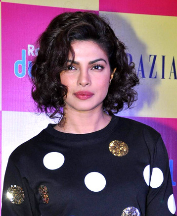 Priyanka Chopra launches Grazia's latest issue